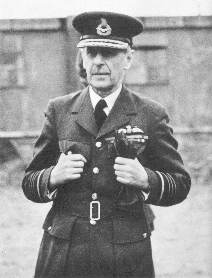 Photograph of Air Chief Marshal Lord Dowding